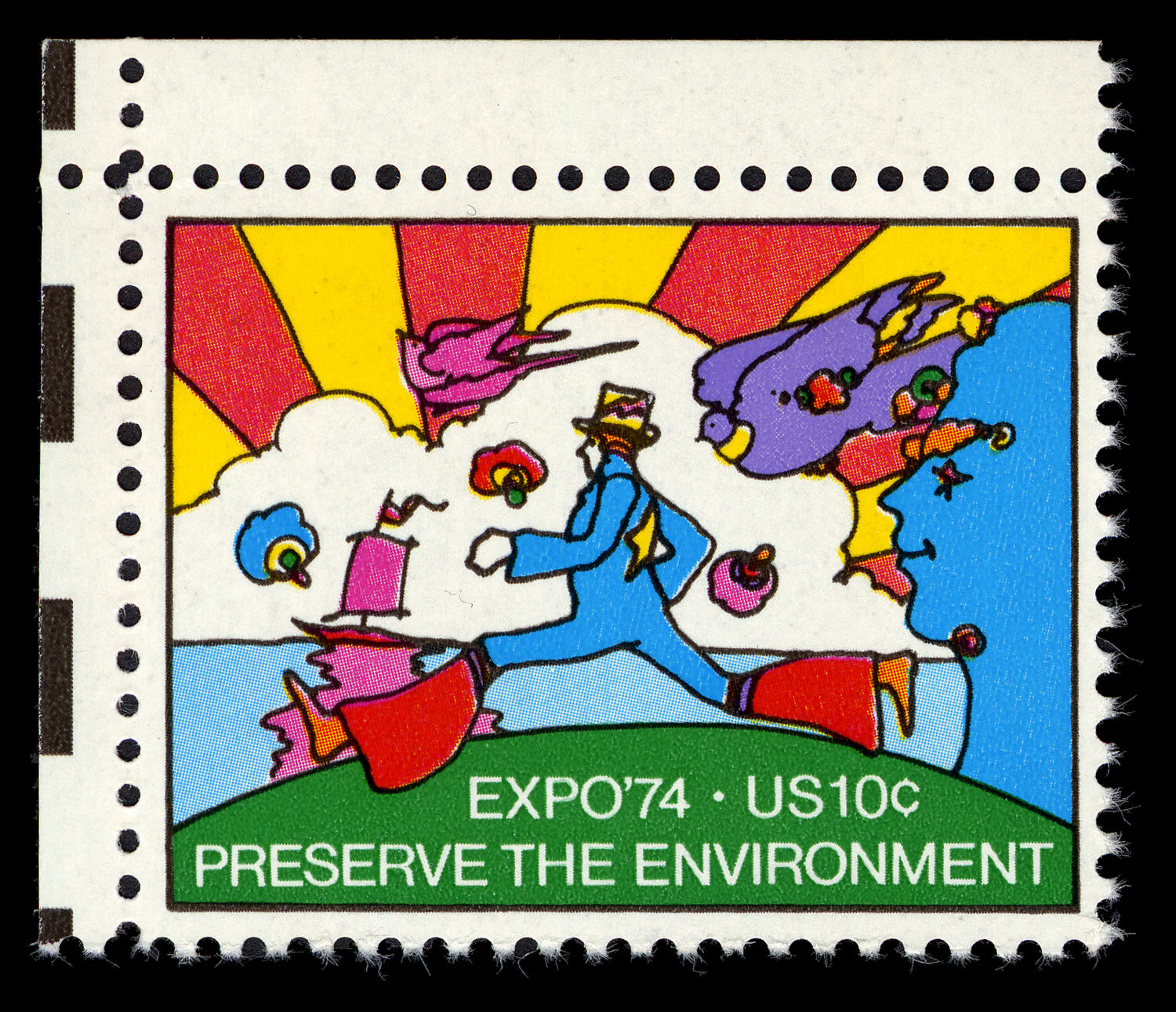 1974 postage stamp commemorating Expo '74